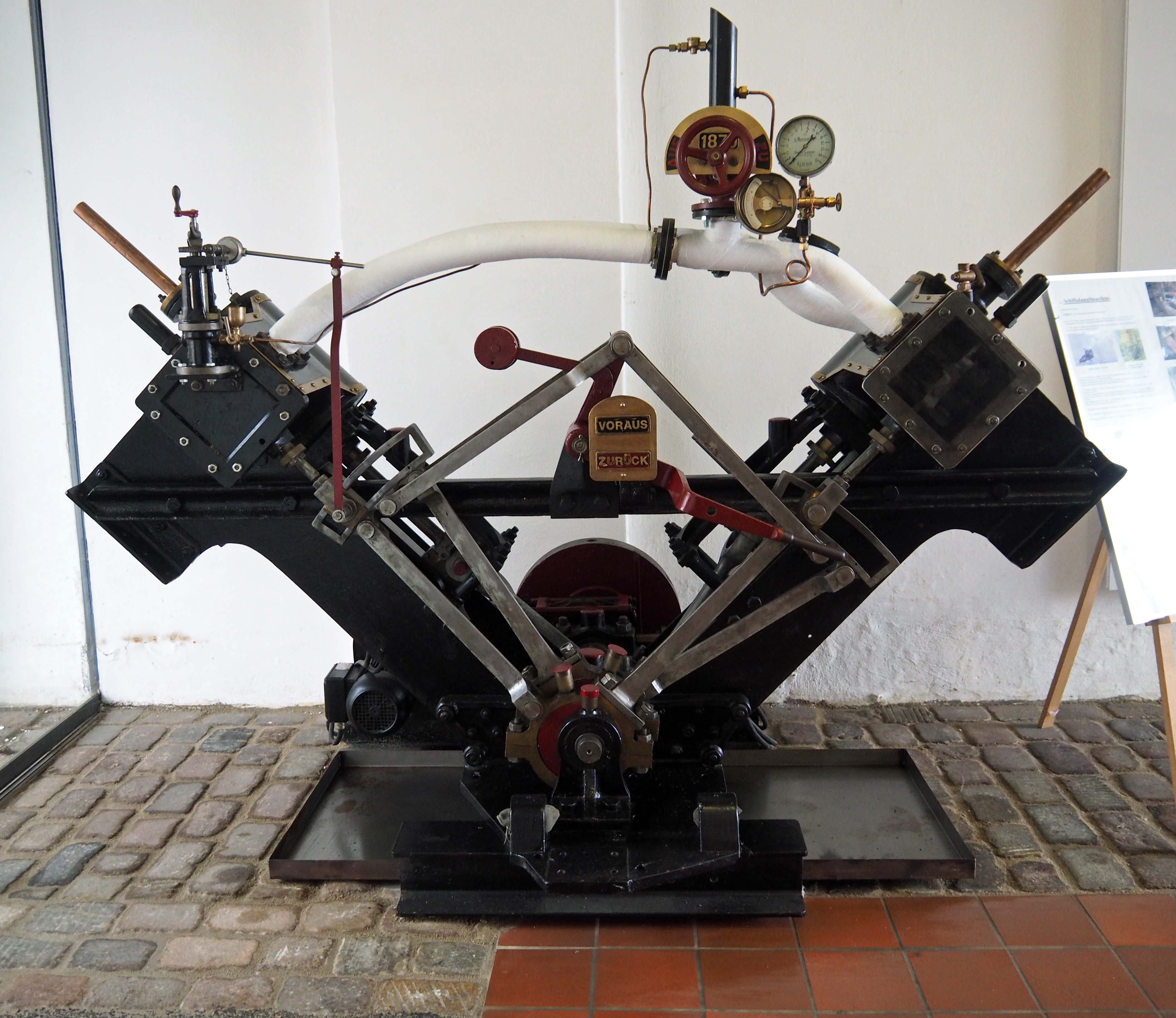 steam machine double cylinder